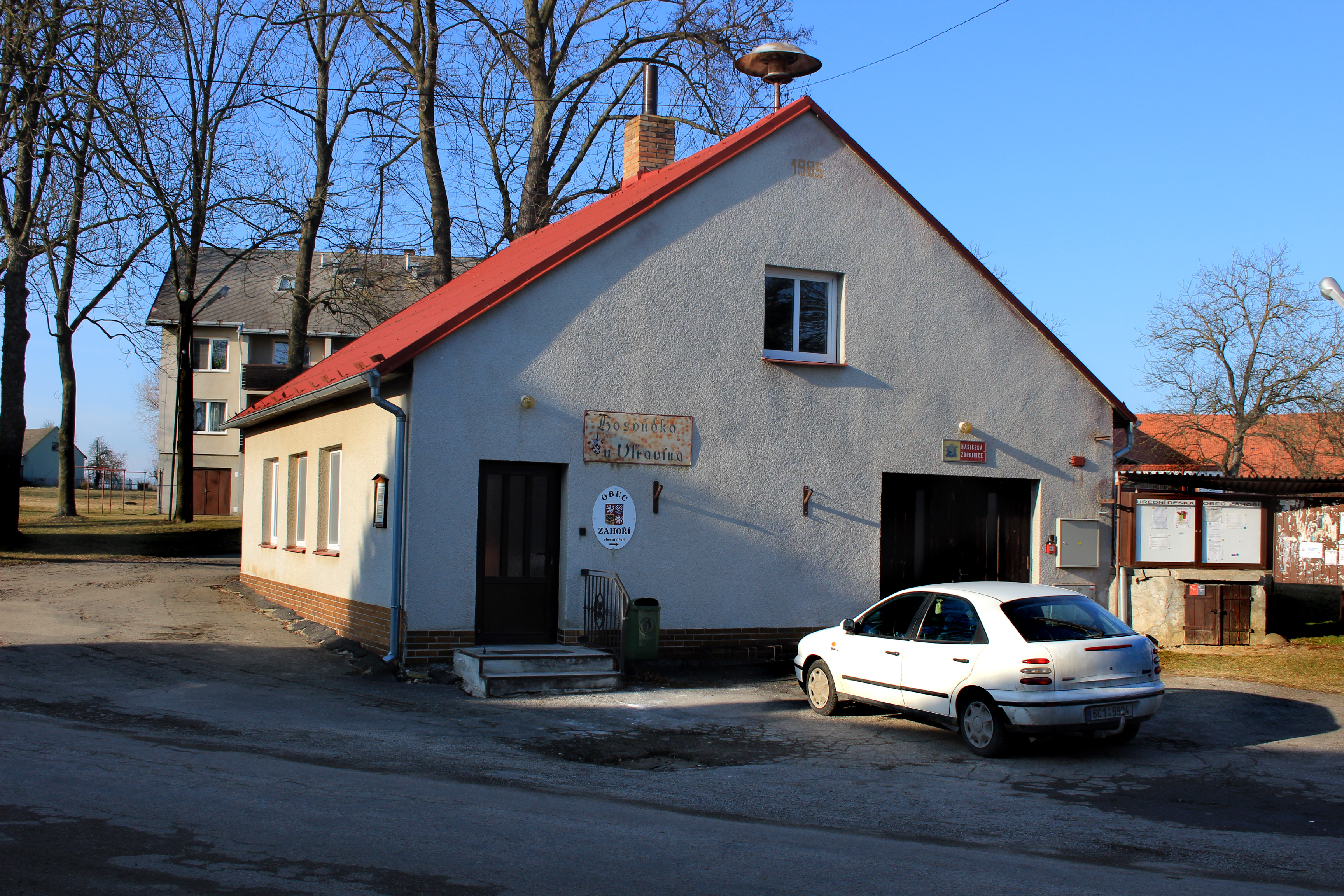 Municipal office in Záhoří village, Czech Republic.